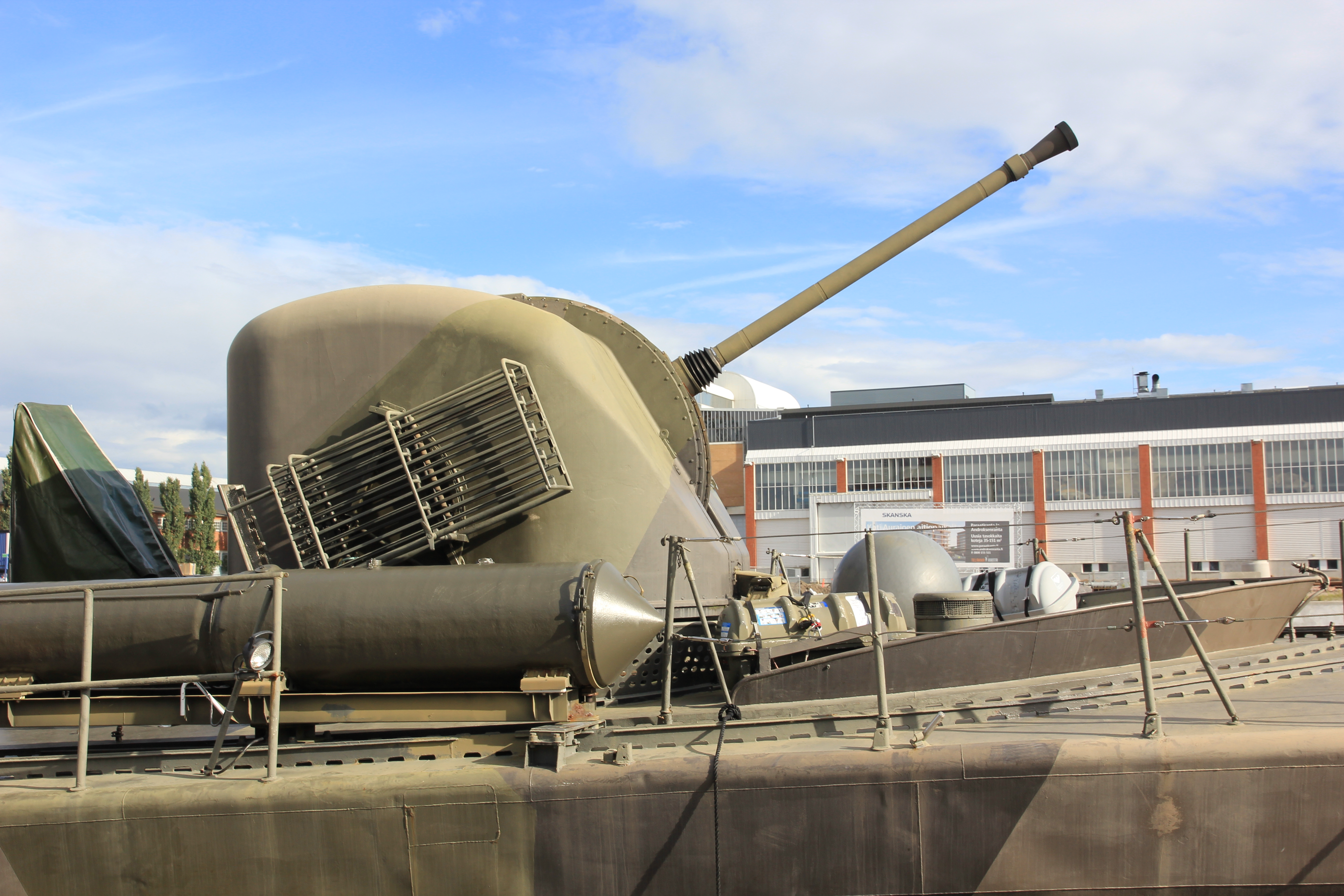 Swedish Veteranflottiljen museum missileboat Ystad (R142) photographed while visiting Forum Marinum maritime museum in Turku. Bow 57 mm Bofors cannon.